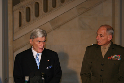 Senator John Warner, with Brigadier General John F. Kelley, USMC, after a briefing regarding the status of investigations into the Haditha incident, May 25, 2006